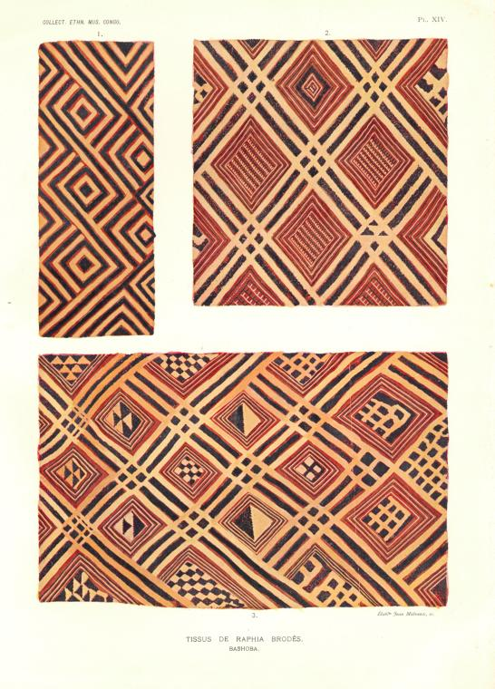 Woven raphia fabric from the Bashoda